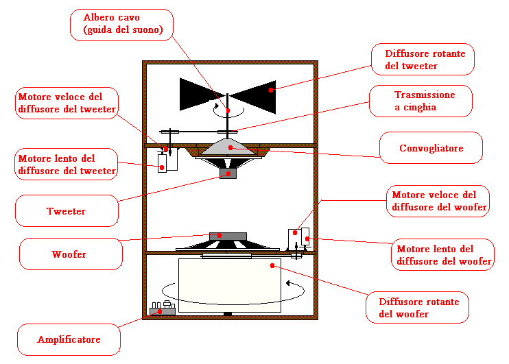 disposal of the parts within a Leslie cabinet